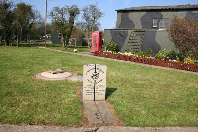 East meets West Meridian marker at East Kirkby Lincolnshire Aviation Heritage Centre